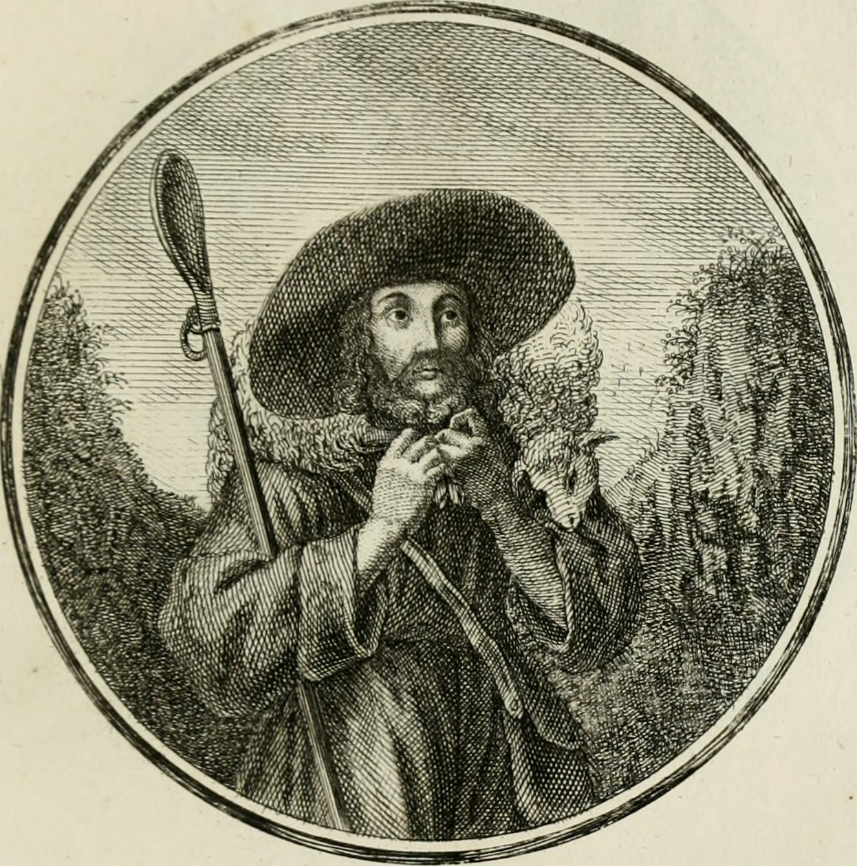 Title: Regula emblematica Sancti Benedicti Year: 1783 (1780s) Authors: Benedict, Saint, Abbot of Monte Cassino Gallner, Bonifaz, O.S.B., 1678-1727 Subjects: Christian art and symbolism Emblems Emblem books, Latin Publisher: Vindobonae (Vienna) : Apud Carl Wilhelm Holle, bibliopola universitatis Text Appearing Before Image: fecrete confolentur fratrem fluctuantem, et prouocent eum adhumilitatis fatisfactionem. Et confolentur eum, ne abundan-tiori triftitia abforbeatur: fed ficut ait idem Apoftolus, con-firmetur in eo caritas; et oretur pro eo ab omnibus. Magno-pere enim debtt follicitndinem gerere Abbas: et omnifagacitate,et induftria citrare, ne aliquam de ouibus fibi creditis perdat.Nouerit enim fe infirmarum curam fufcepiffe animarum, nonfuper fanas tyrannidem- et metuat Prophetae comminatio- 0 o fr c 89) «#~-a-# PIVM EXEMPLVM.LXXXIX, Text Appearing After Image: nem, per quem dicit Devs : quodcraflumvidebatis, aflumeba-tis: etquoddebile erat, proiiciebatis. Et Paftoris bonipium imi-tetur exemplum; qui relictis nonaginta nouem ouibus in montibus,abiit vnam ouem, quae errauerat, quaerere: cuius infirmitati intantum compaffus eft; vt eam infacris humeris Jiiis dignareturimponere,etficreportareadgregem. CAPVT XXVIII. De ns, QVI SAEPIVS CORREPTI NON EMENDAVERINT. SiquiS frater frequenter correptus pro qualibet culpa, fi etiam excommunica- h;M©-^ C 90 ) AXVS EST. xc